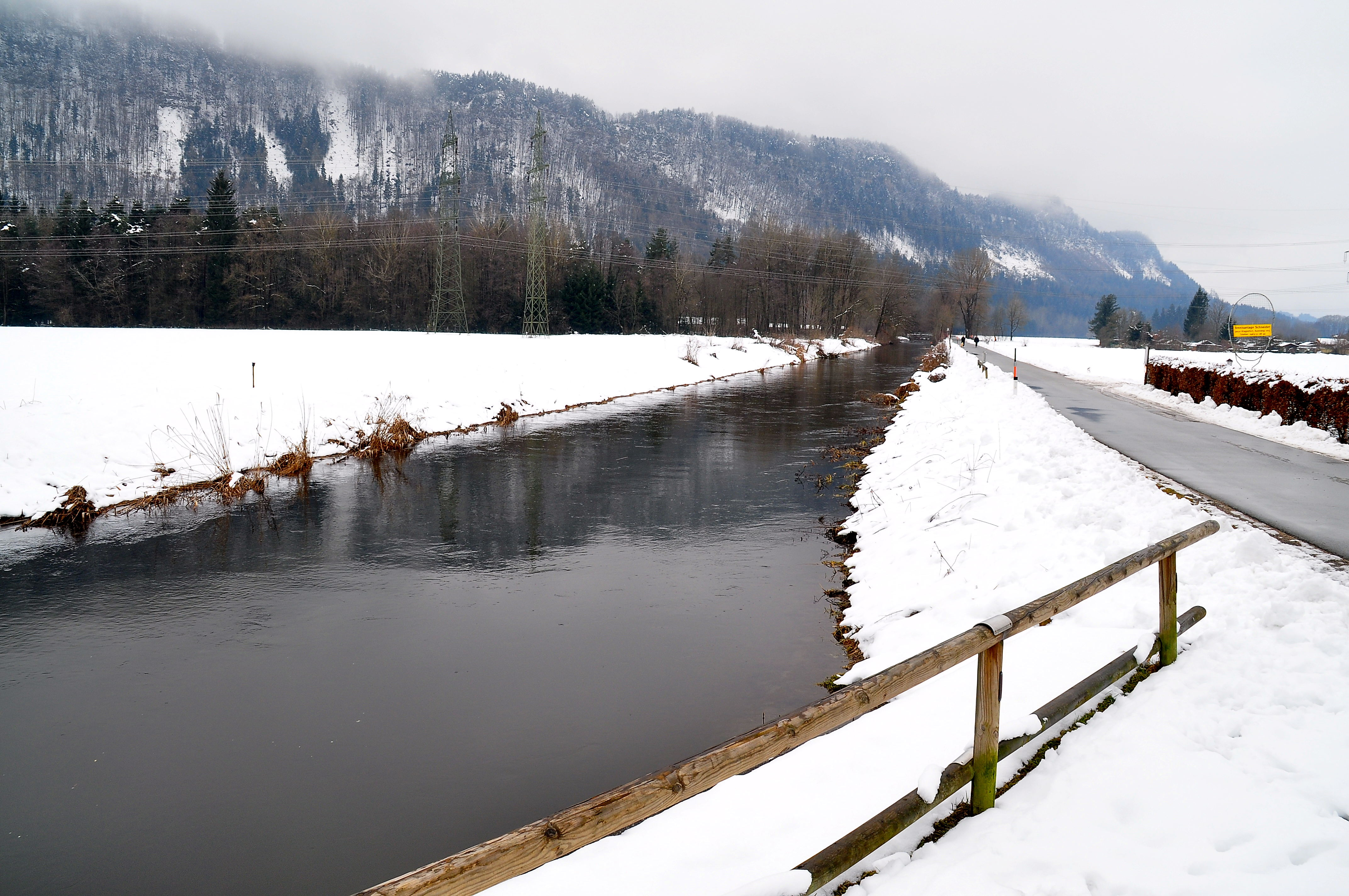 Sattnitz mountain range in the background and the Glanfurt river in the 11th district "Sankt Ruprecht" of the Carinthian capital Klagenfurt, Carinthia, Austria